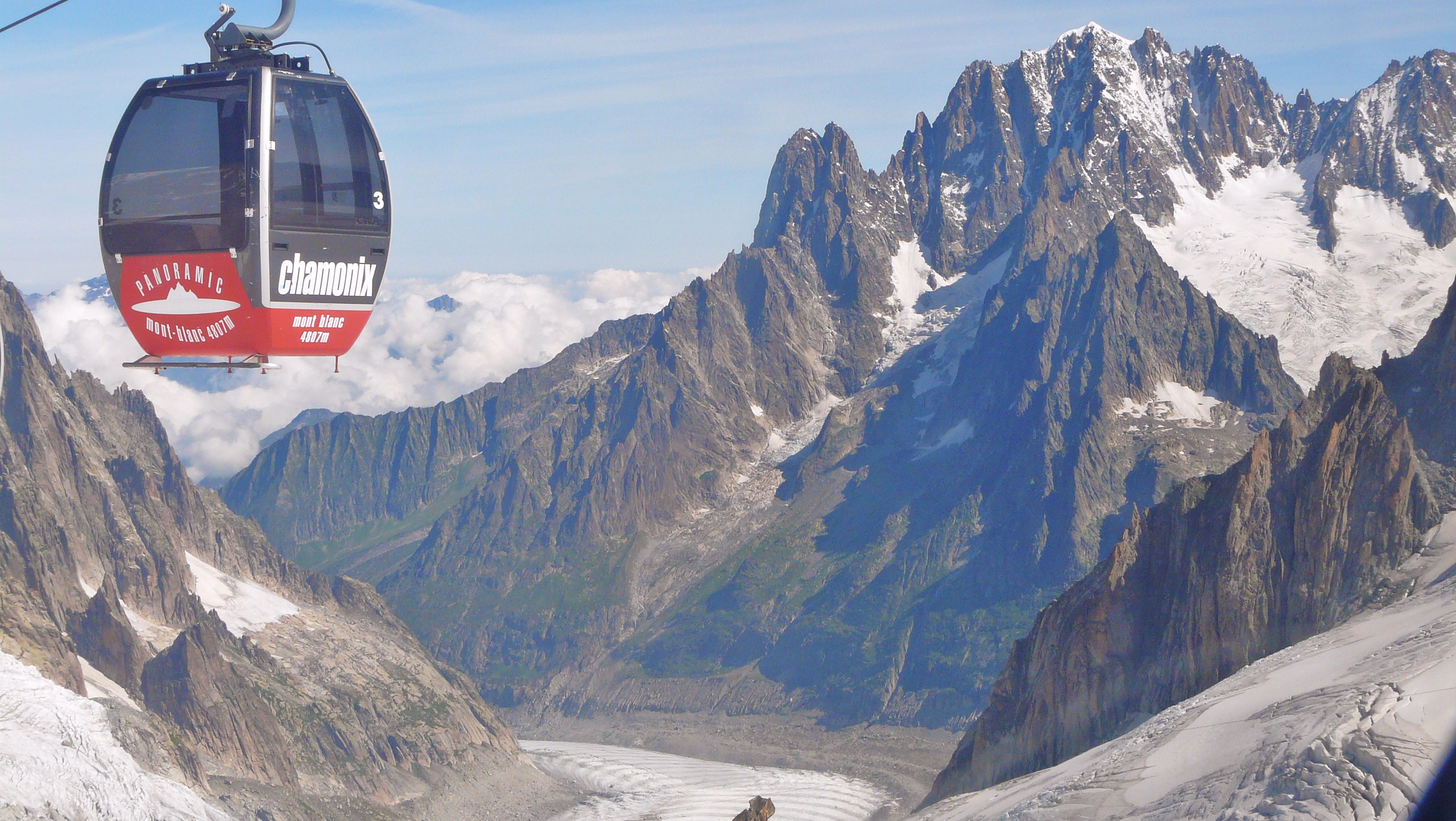 A telecabine between Punta Helbronner and Aiguille du Midi in 2009 July. Aiguille Verte in the background.